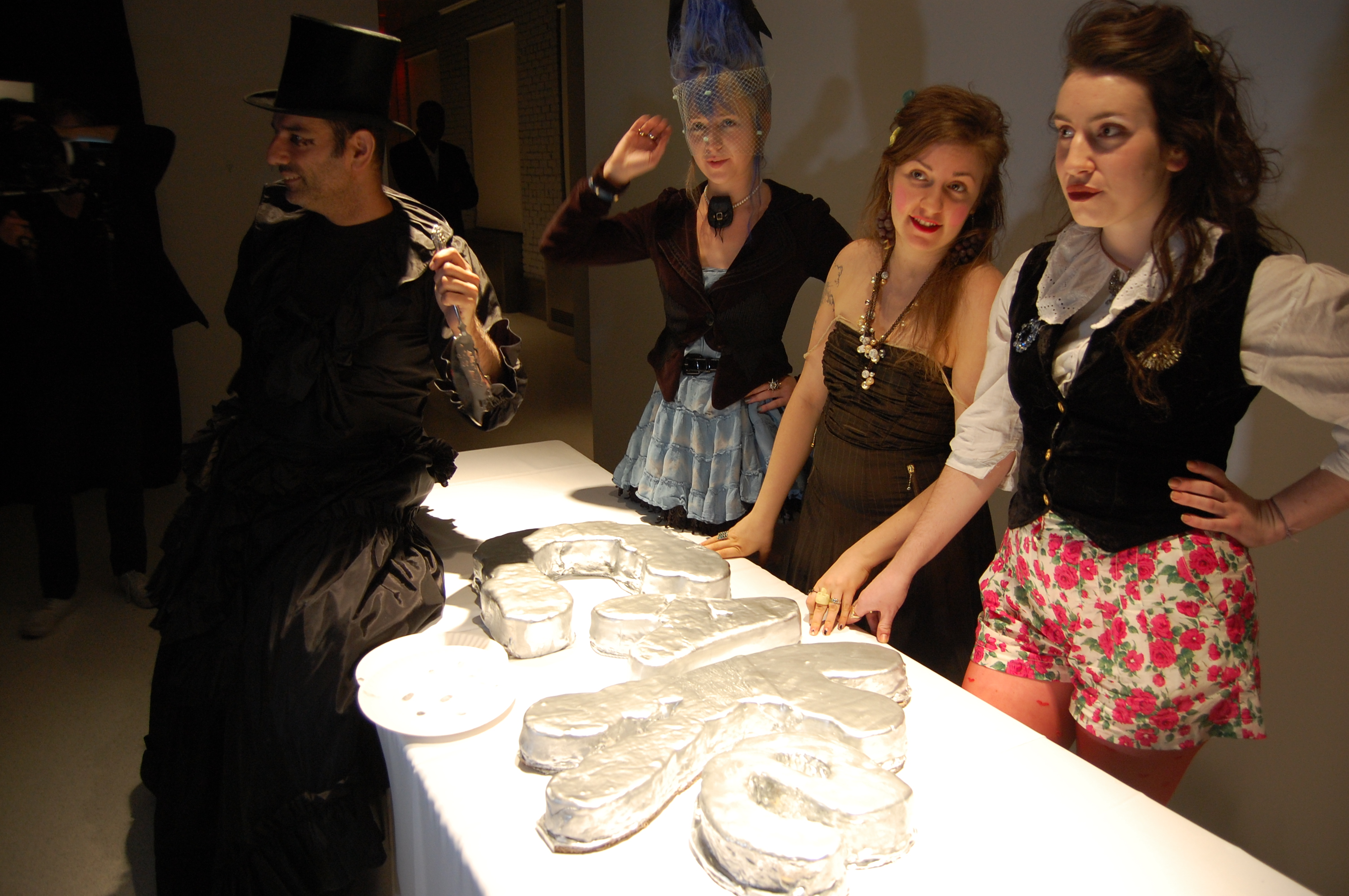 'Cake Happening' by Kreemart and American Patrons of the Tate at Haunch of Venison, New York, Nov. 3, 2009